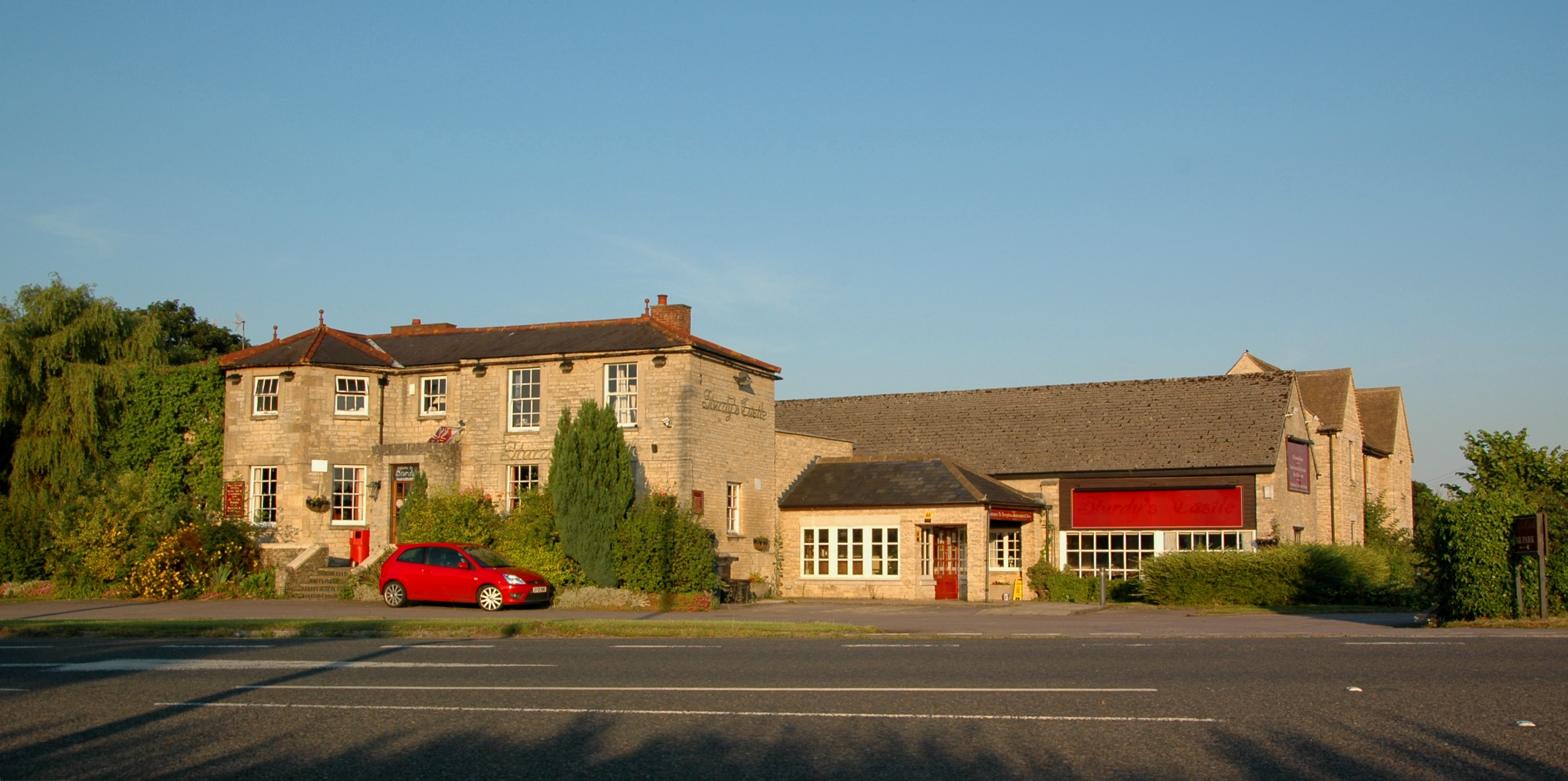 Sturdy's Castle public house and motel, Tackley, Oxfordshire, England